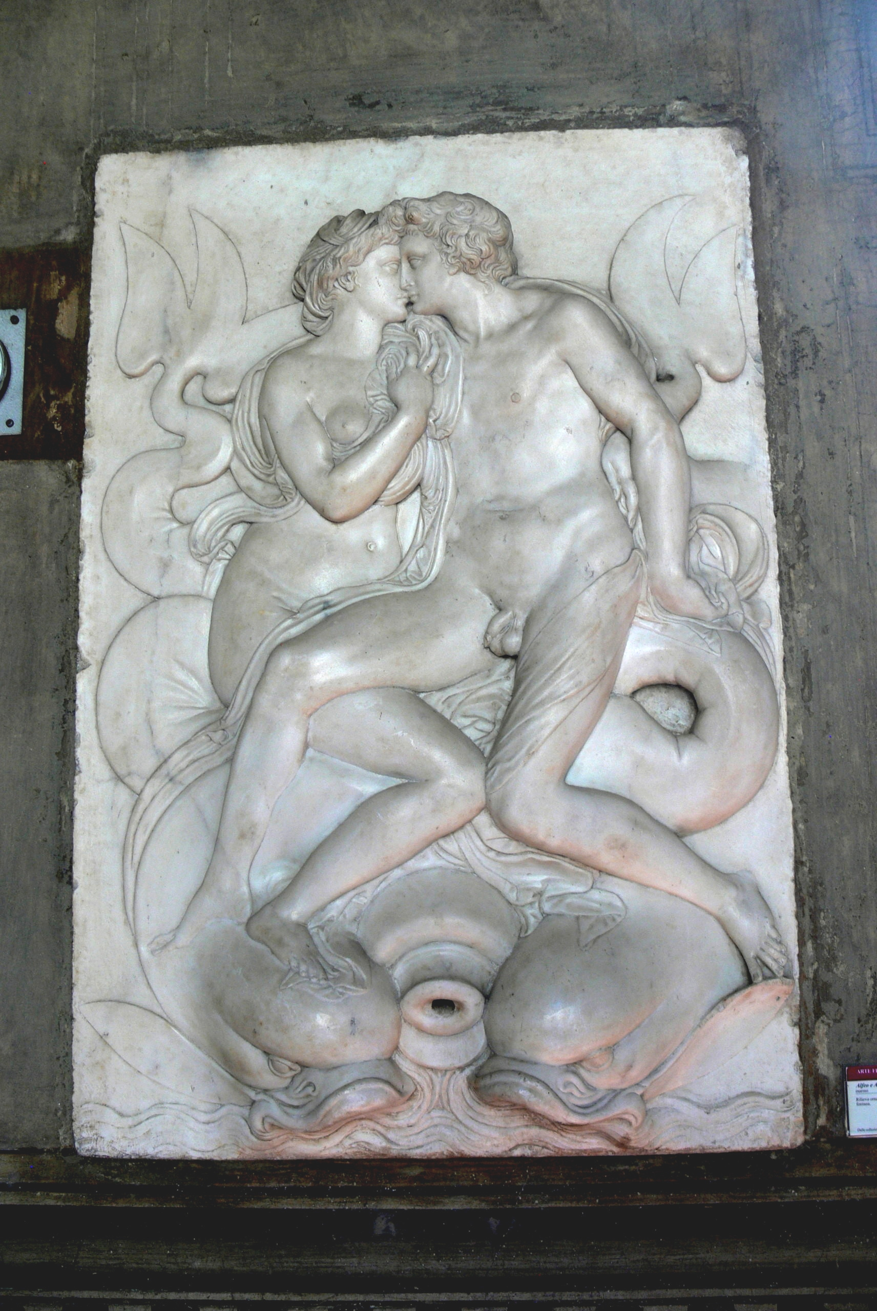 Museo del Bargello ( Florence ). Marble relief of a fountain ( 1562 ) showing Alpheus and Arethusa.